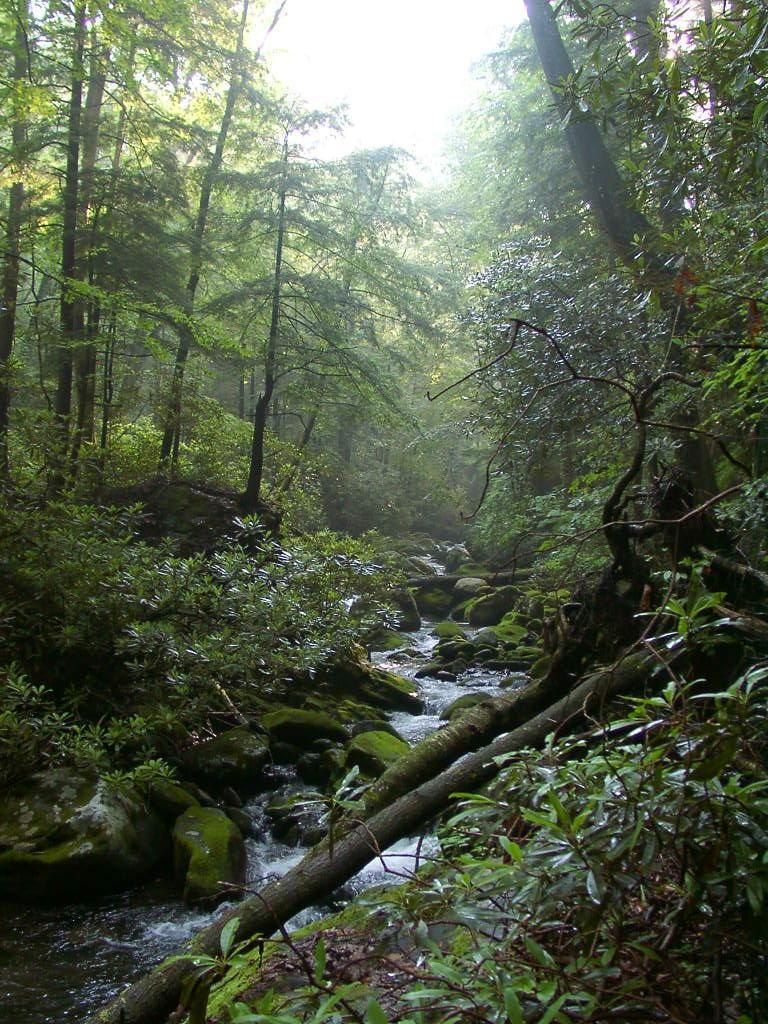 Roaring Fork River in the Great Smokey Mountains National Park.